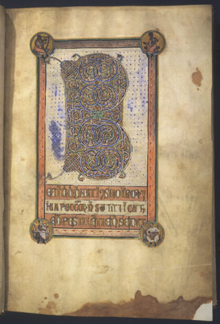 A photograph of the Iona Psalter.